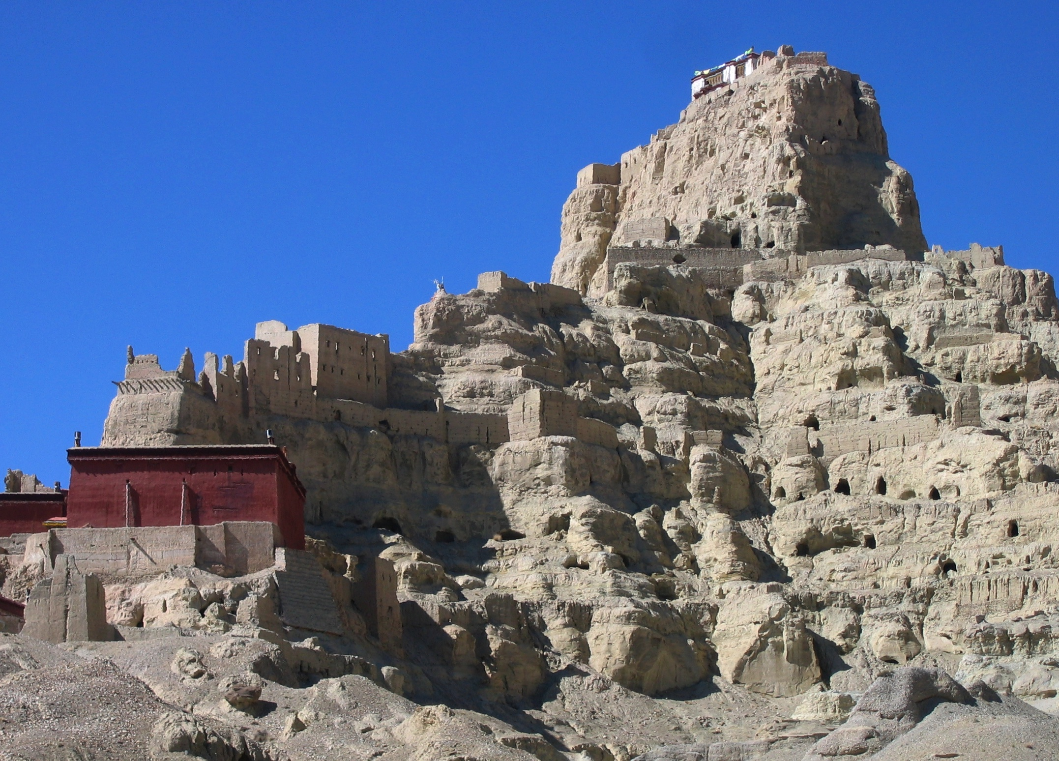 Tsaparang (Ngari / Western Tibet) The ruins of the ancient capital of Guge Kingdom